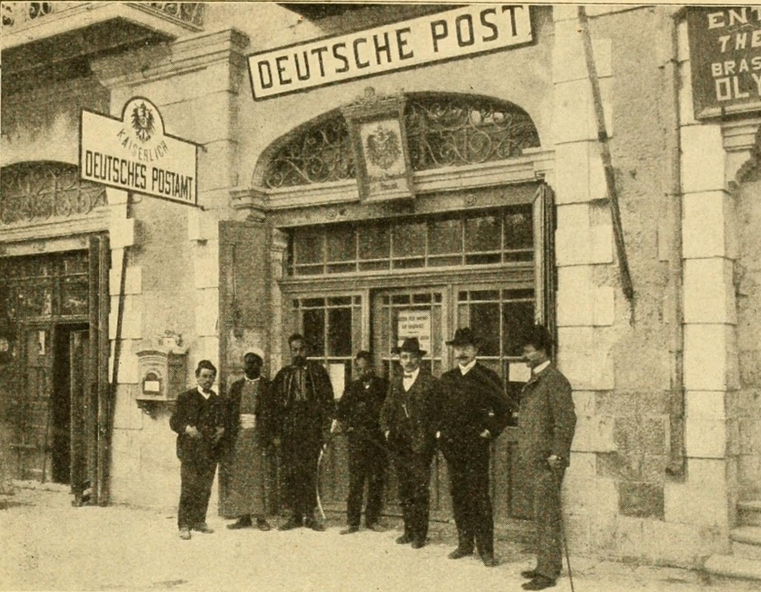 Post office personel standing outside the German Post Office in Jerusalem Identifier: diepostwertzeich00friedem Title: Die postwertzeichen und entwertungen der deutschen postanstalten in den schutzgebieten und im auslande Year: 1921 (1920s) Authors: Friedemann, Albert Subjects: Postage stamps Postmarks Publisher: Leipzig, A. Friedemann Text Appearing Before Image: Postkarriol Jaffa-Jerusalem. Auhiahme Schmidt. 6Ü Text Appearing After Image: Das Personal der Deutschen Post vor dem Kaiserl. Deutschen Postamt in Jerusalem. Aufnahme Lam))e. Entwertungen. Bei den einzelnen Poststempeln ist angegeben, welche Marken mit jenen Stempeln echt ge-braucht vorkommen können; damit soll aber nicht gesagt sein, daß alle jene Entwertungen auchtalsächlich auf den betreffenden Marken vorgekommen sind. r^ncfcinfinnn^l ^««^««/ew^«- des Norddetitschen Bundes 1. Marx, 1870 ;V^UIl^Lctniinupei, Kaiserl. Deutsches Postamt 11. Mai 1871 xuerst unter Bexeichnung „Deutsches Reichspostamt;Kaiserlich Deutsches Postamt I. April 1880. dei Errichtet in Peta am 1. Marx 1870, verleijt mich Galuta am 1. Oktober 1877.